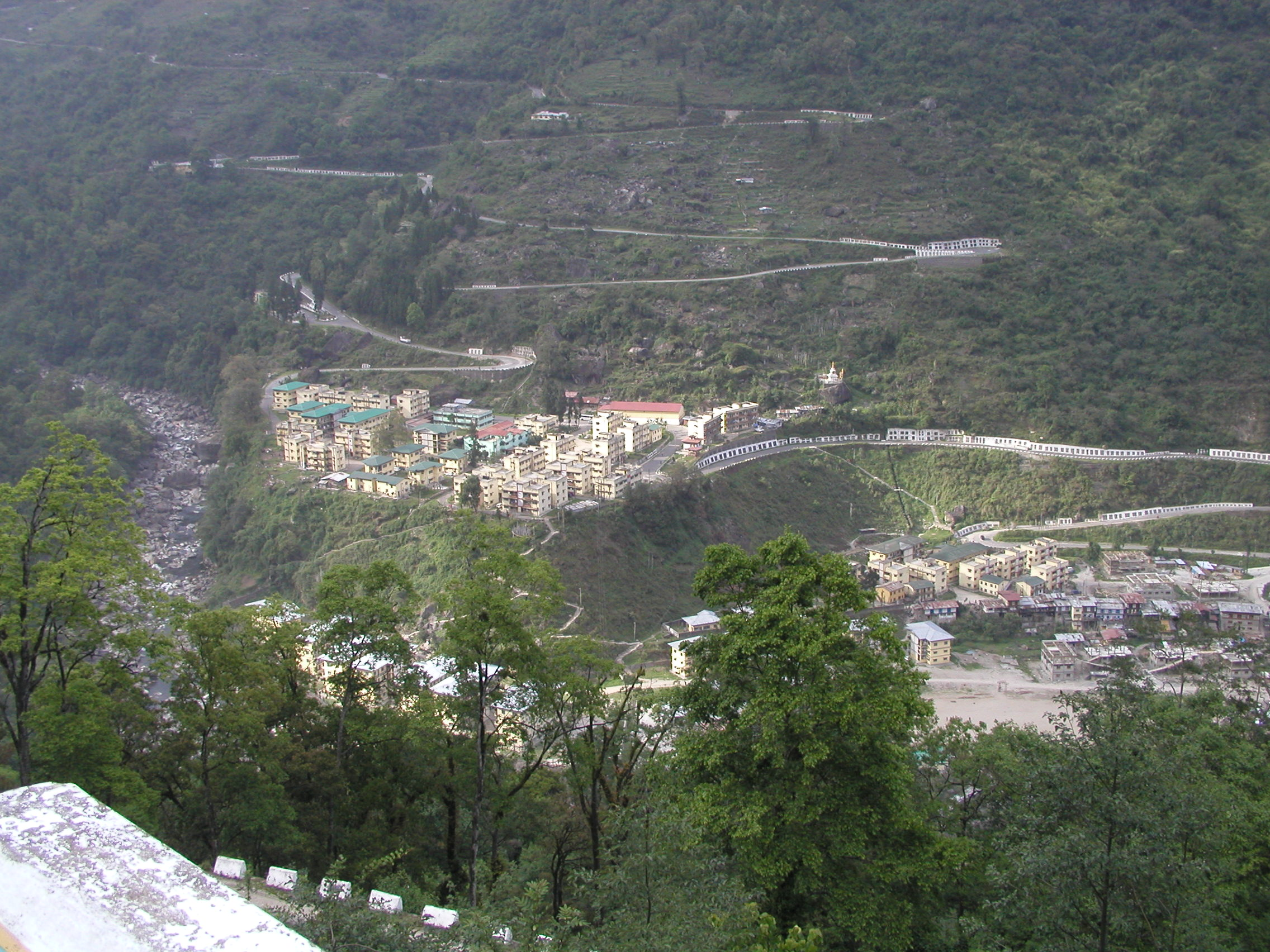 View of Chukha (Mepetsa), Bhutan. On Wangchu river